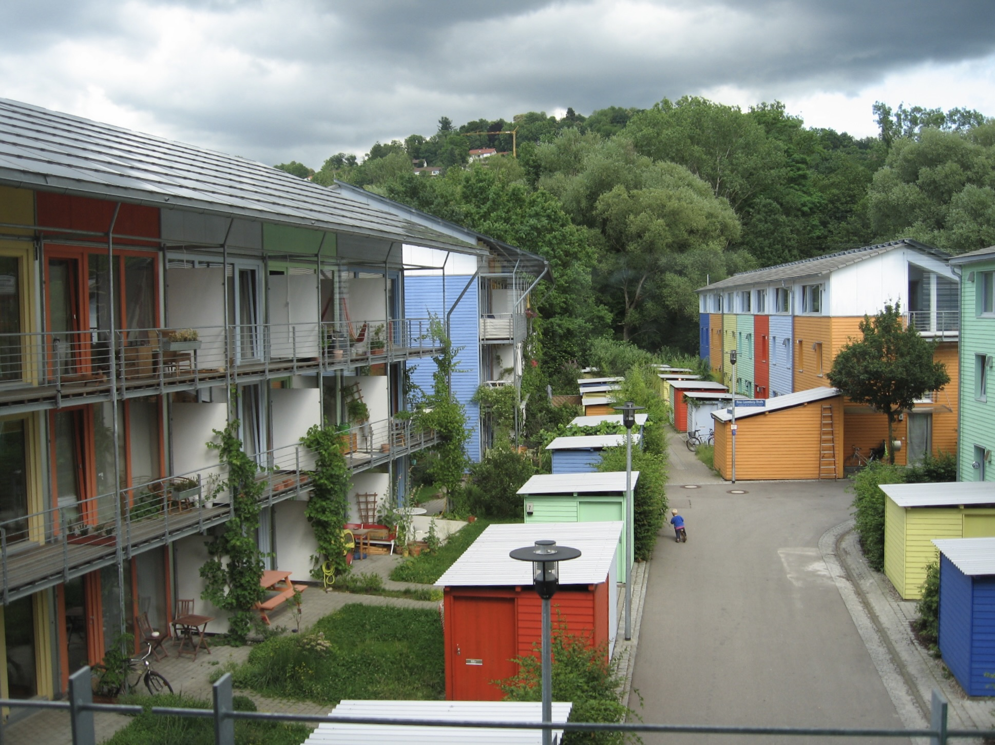 Solar Settlement in the Vauban quarter in Freiburg (Germany), Elly-Heuss-Knapp-Straße.